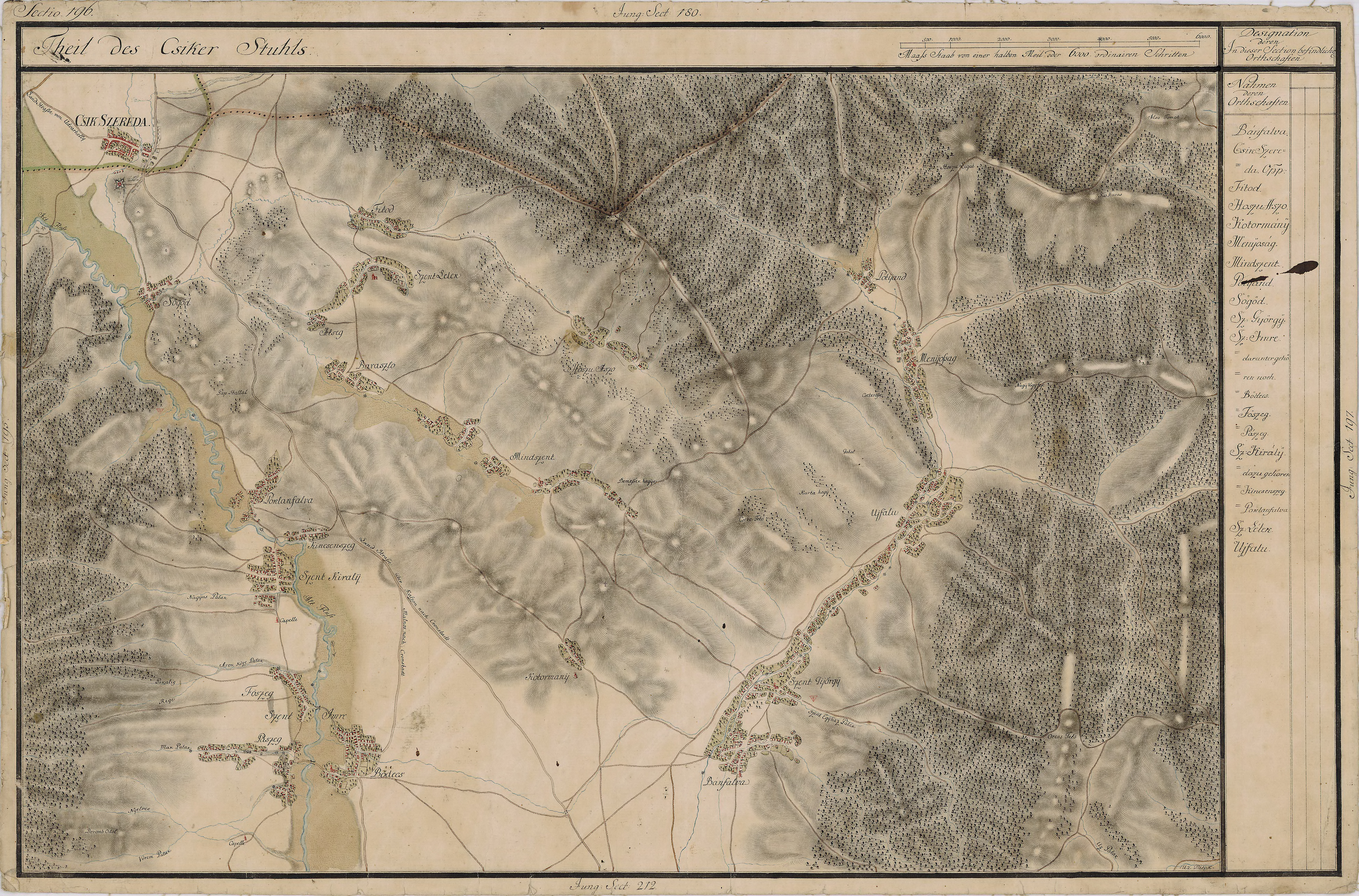 Grand Duchy of Transylvania, 1769-1773. Josephinische Landaufnahme pg.196